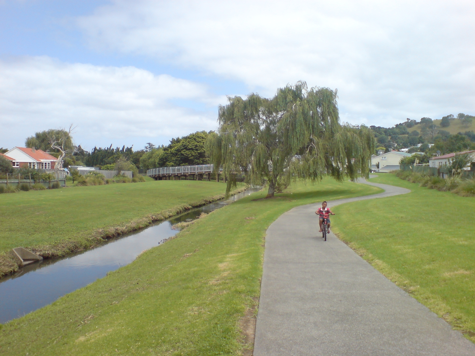 Underwood Park in Auckland, New Zealand. The agressively channelised stream to the left of the great new walk- and cycleway is what later becomes Oakley Creek.